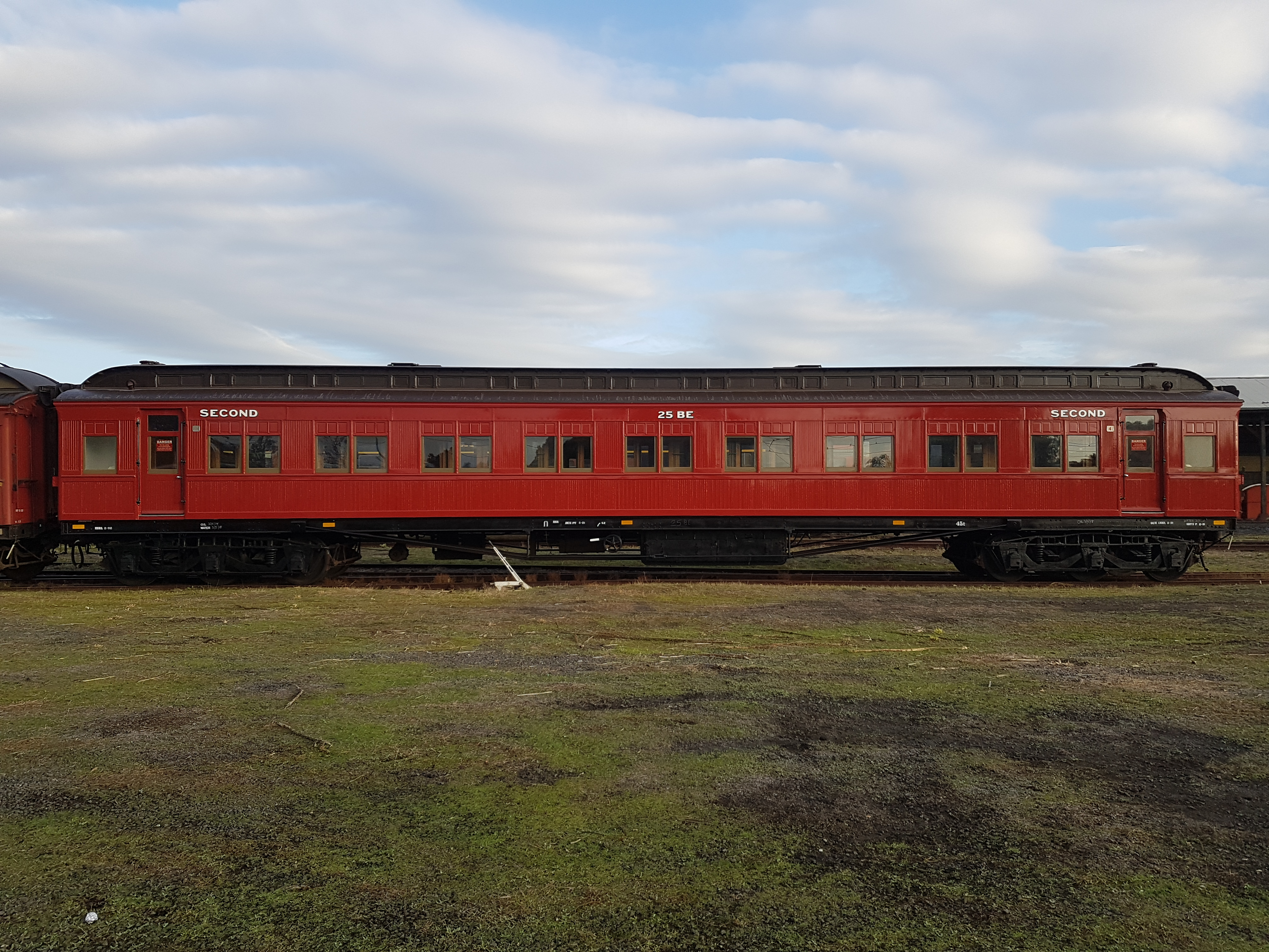 An E type carriage as restored by Steamrail Victoria